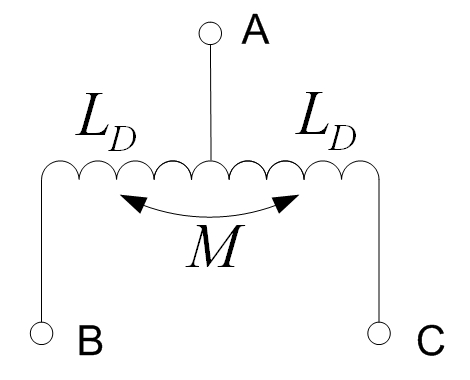 Schematic diagram of Duplex reactor.